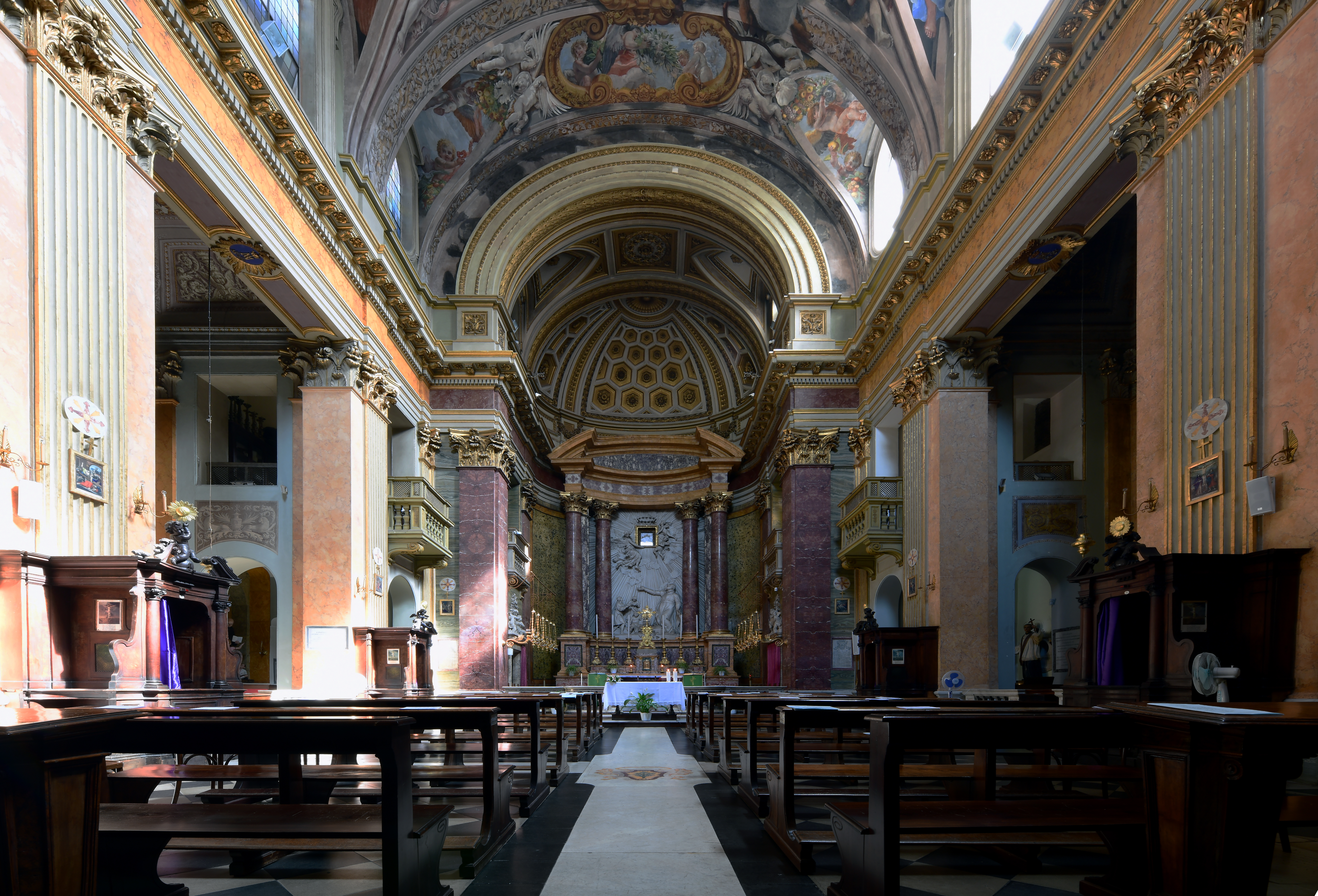 San Pantaleo (Rome) - Interior